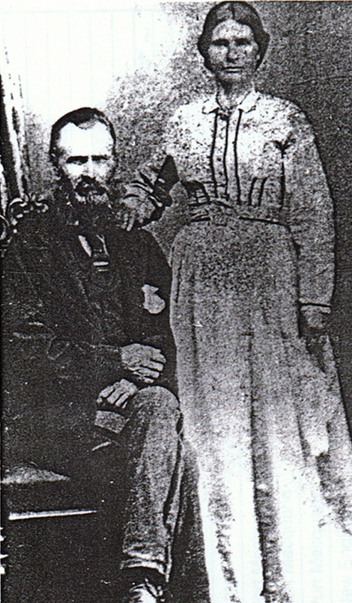 James and Martha Lahey who were employed at Lake Innes House, Port Macquarie, circa 1850